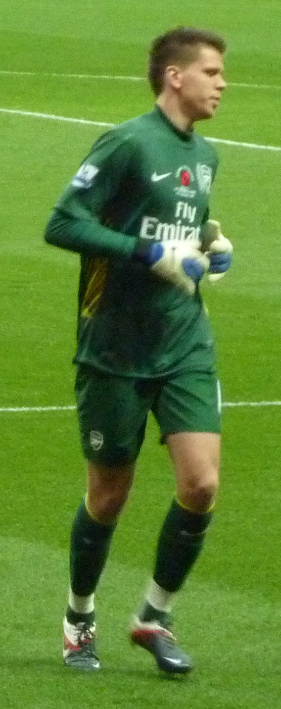 Wojciech Szczesny during a match between Arsenal and WBA